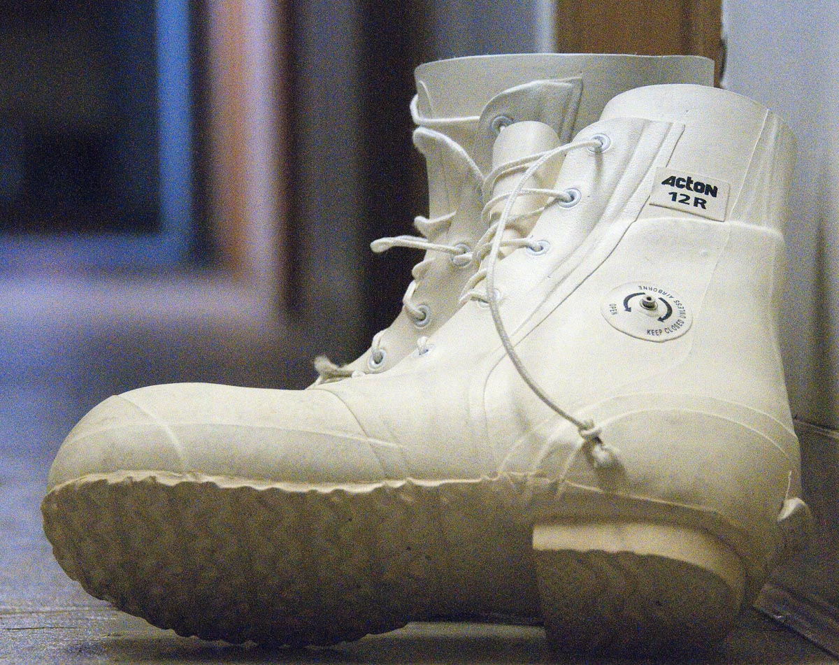 Bunny boots in the hallway of Cully Camp, Point Lay, Alaska.